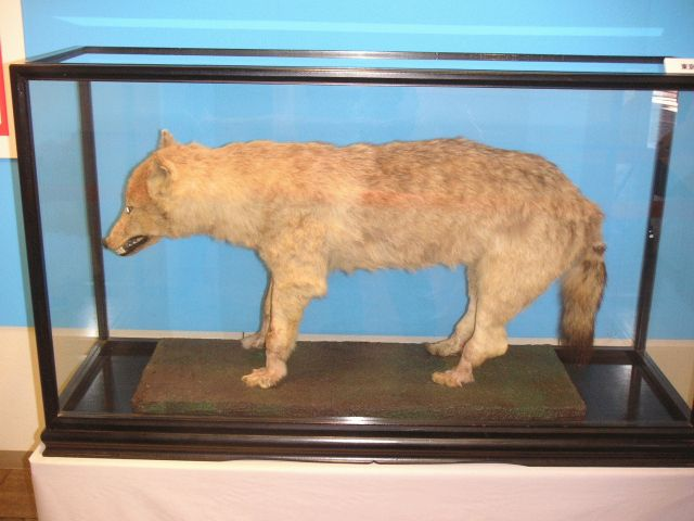 Honshū Wolf (Canis lupus hodophilax) in Ueno Zoo, Japan (University of Tokyo possesion?).